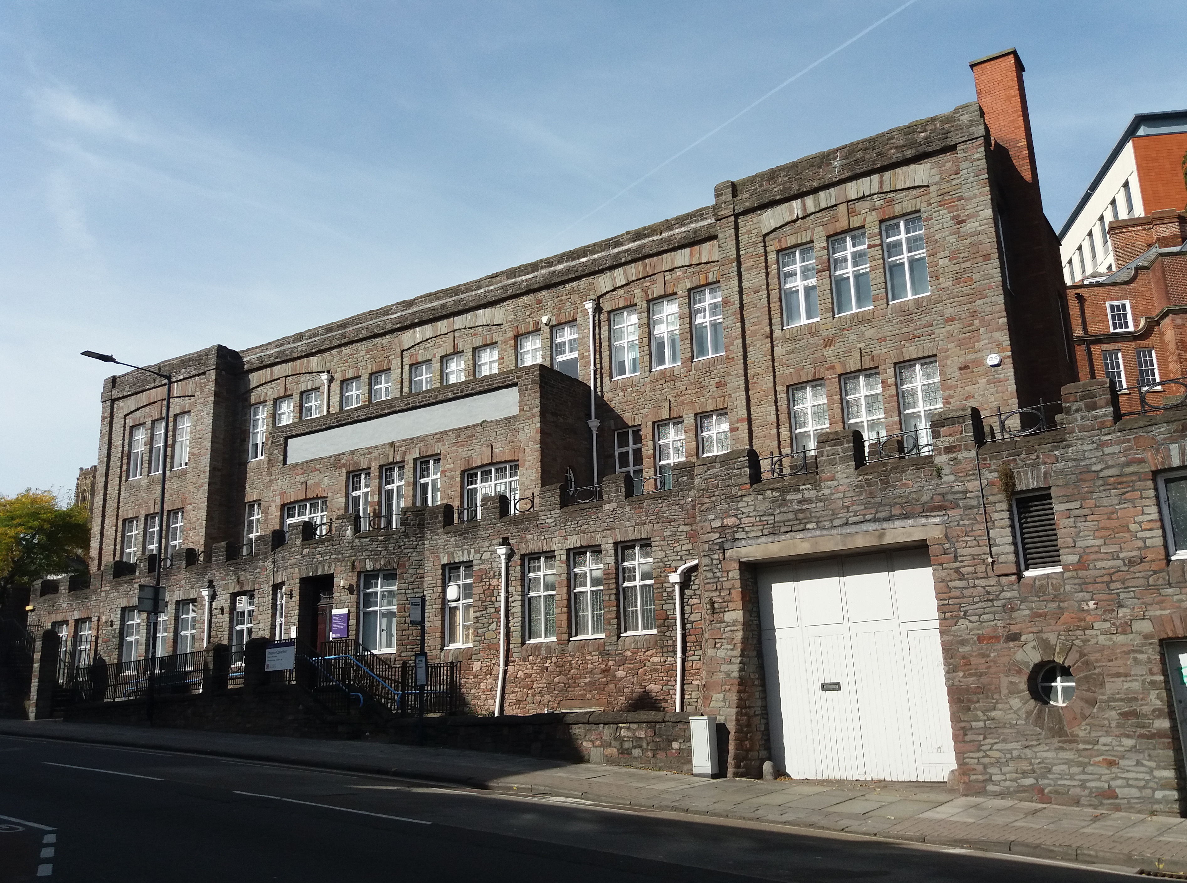 University of Bristol Theatre Collection (main Park Row entrance), 21 Park Row, Bristol BS1 5LT